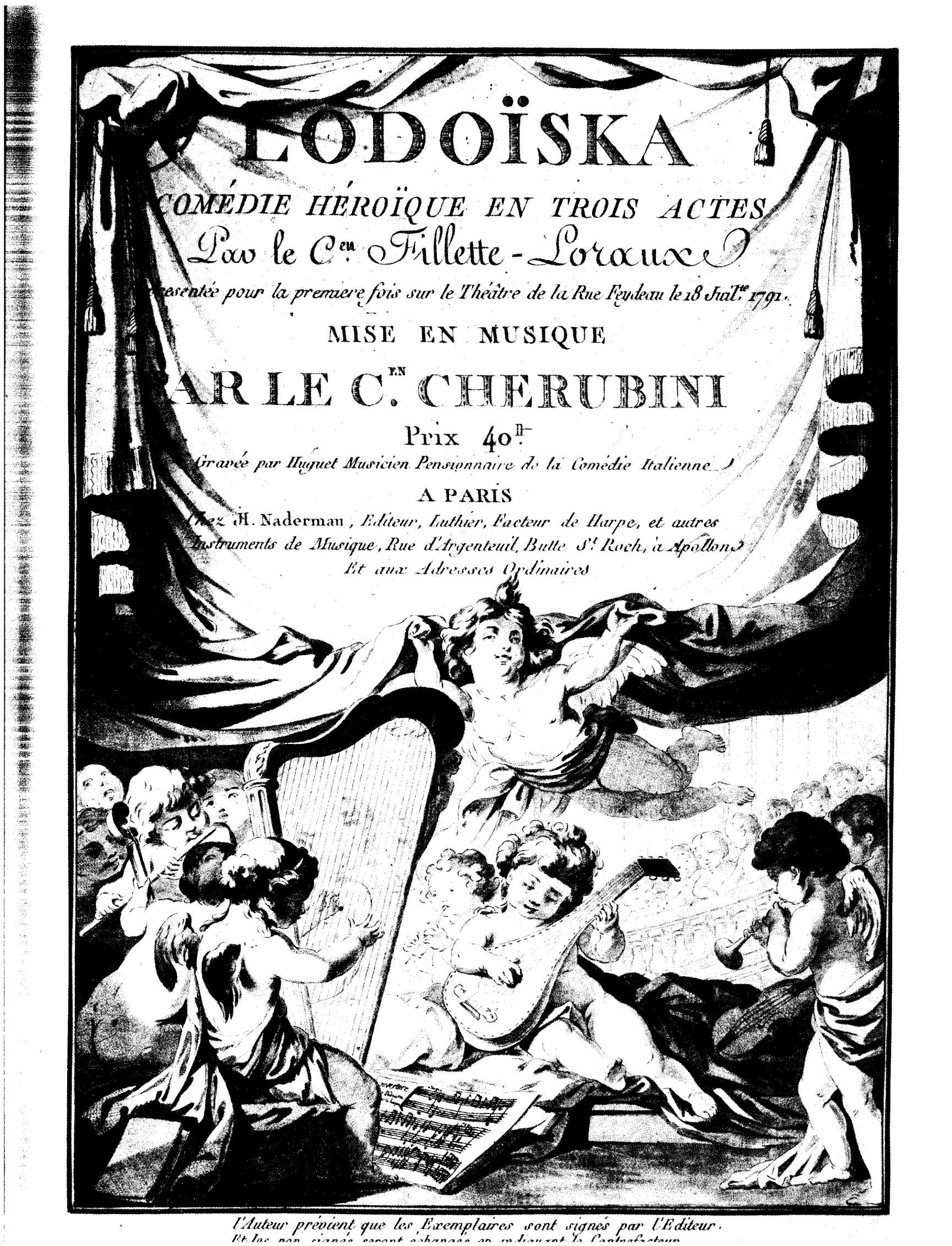 Publisher: Paris: H. Naderman, n.d.(ca.1792).